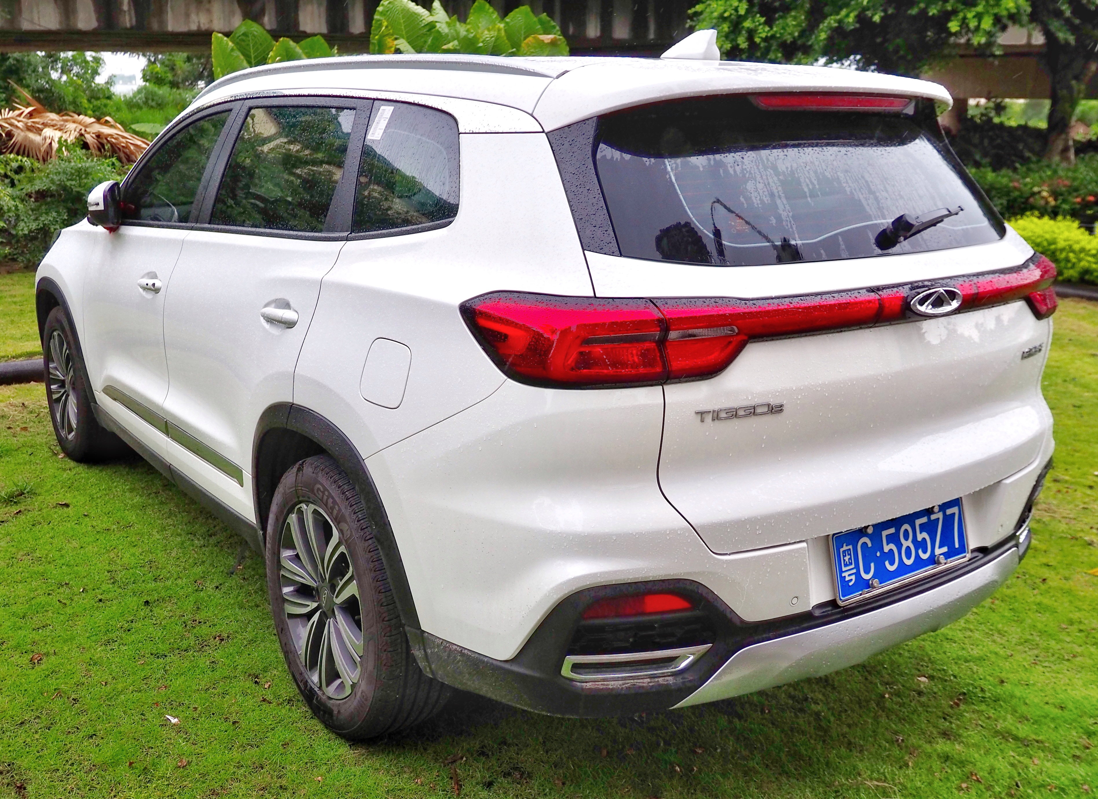 A 2018 Chery Tiggo 8 taken in Zhongshan, Guangdong province, China. 中文（中国大陆）: 一辆2018年的奇瑞瑞虎8，摄于中国广东省中山市。